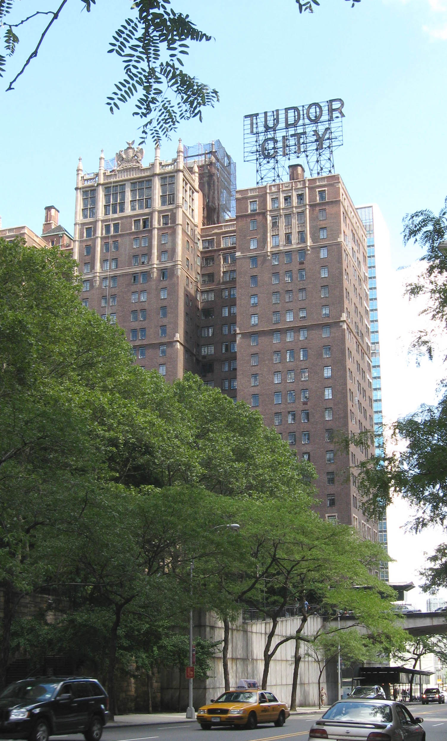 Looking east along 42d St at Tudor City on a sunny afternoon